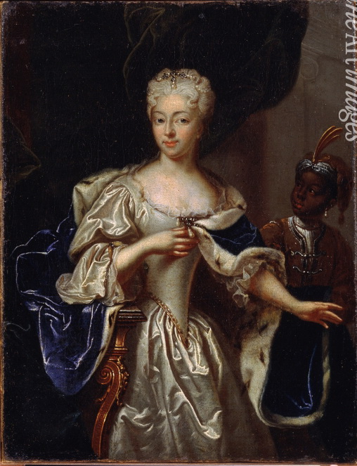 Portrait of Princess Charlotte of Brunswick-Wolfenbüttel (1694-1715), wife of Tsarevich Alexei Petrovich of Russia.